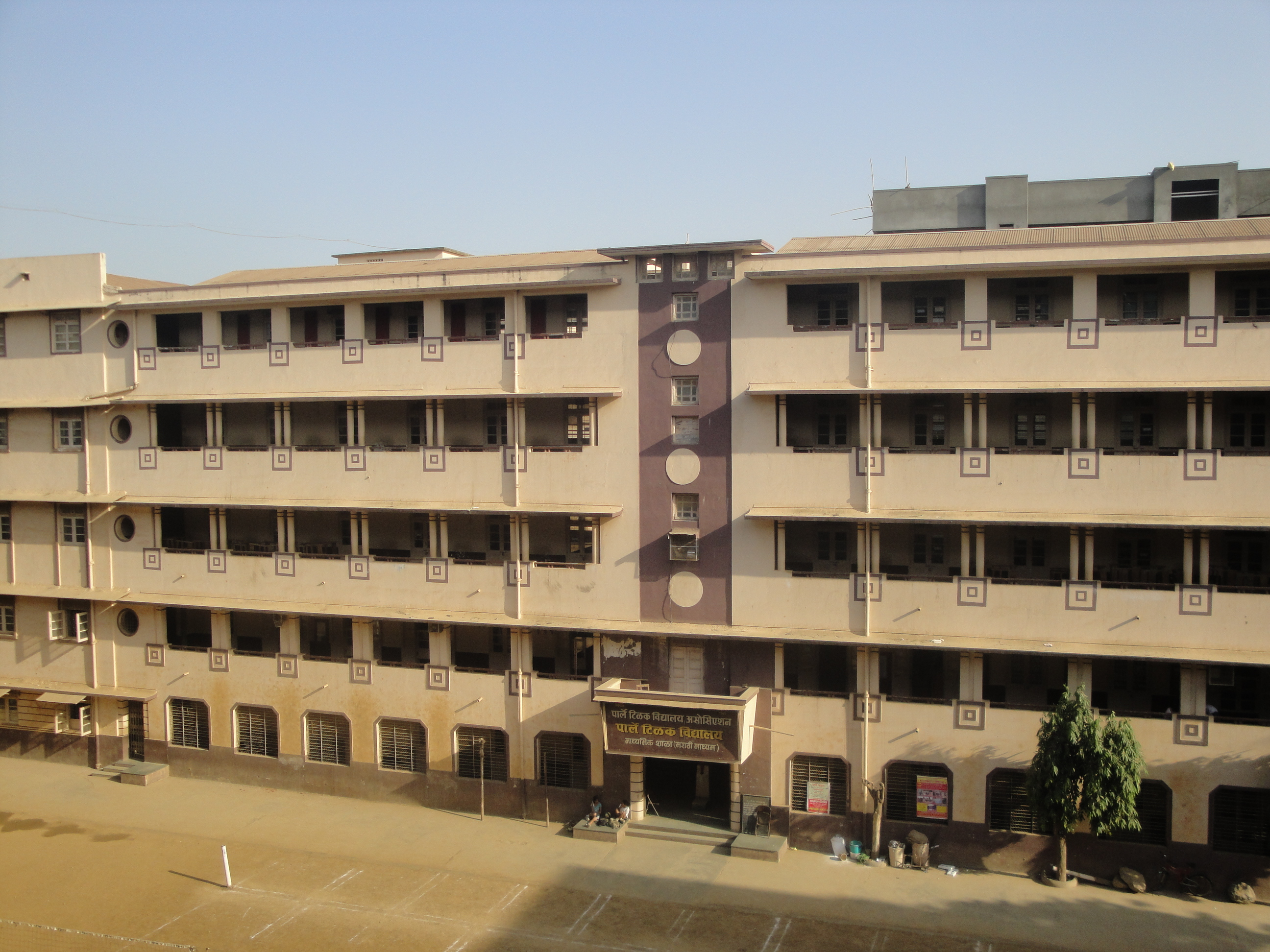 This photo is of Parle Tilak Vidyalaya, a school in Vile Parle, Mumbai, India.